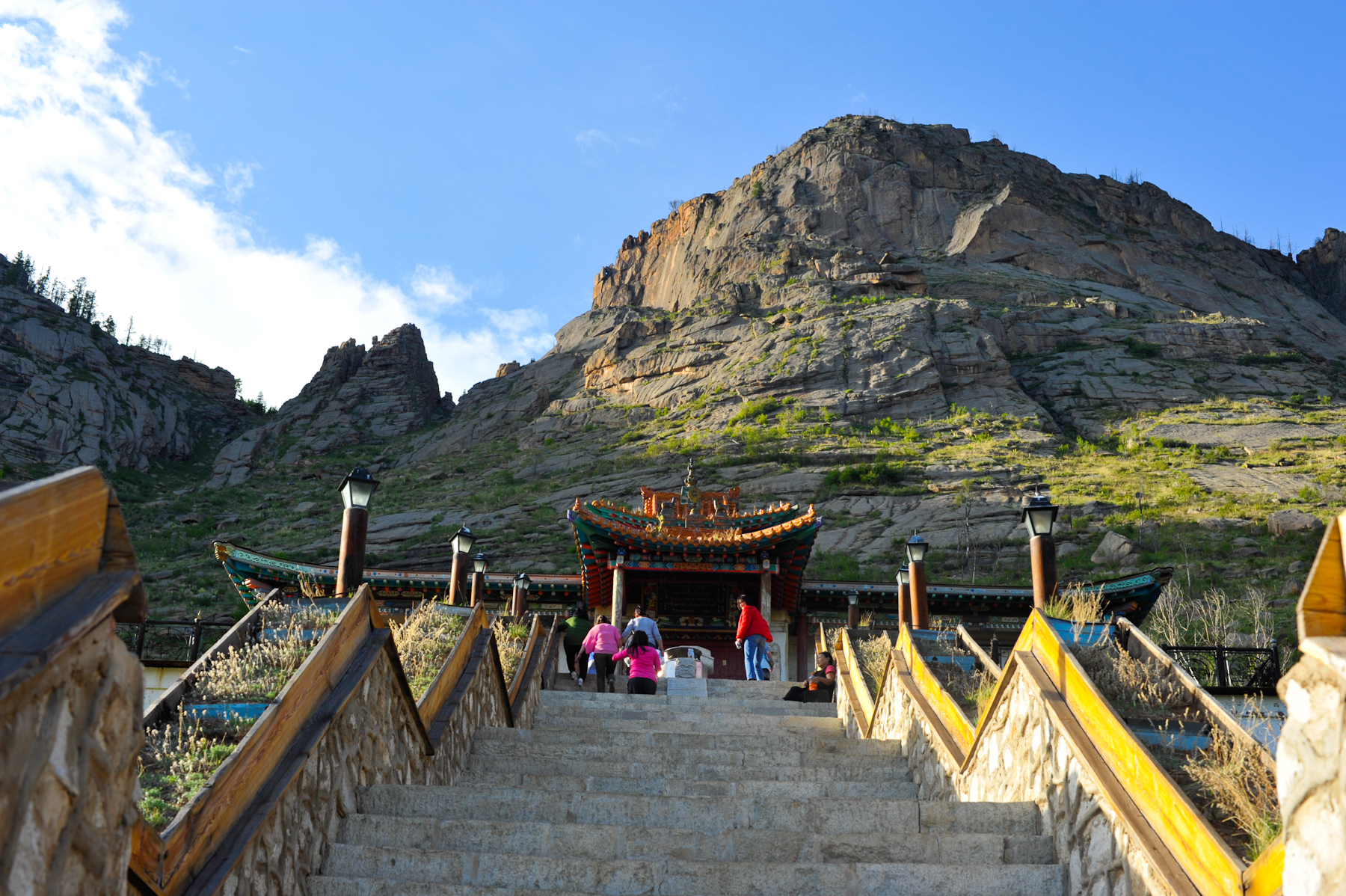 The Aryabal Buddhist Meditation Center In Terelj National Park